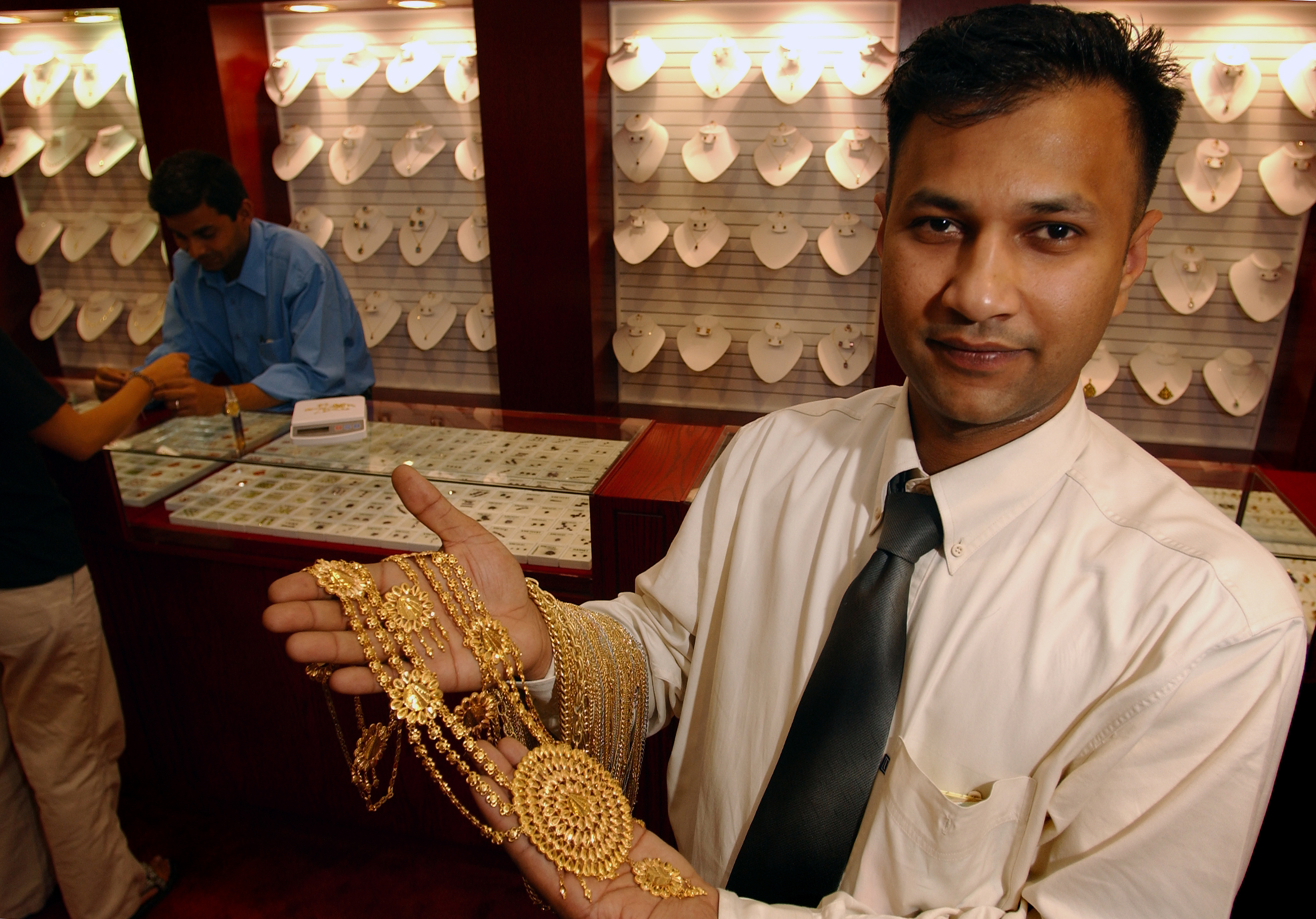 030901-N-6967M-057 Gold, it's the first thing you hear about Bahrain and it's very inexpensive. It's not the gold itself that you save money on though, it's the workmanship. In the U.S. you pay for the work that goes into the jewelry while in Bahrain you pay market value for the gold. (All Hands, September 2003, pg. 32) Photo by PH1 Shane T. McCoy. (RELEASED)